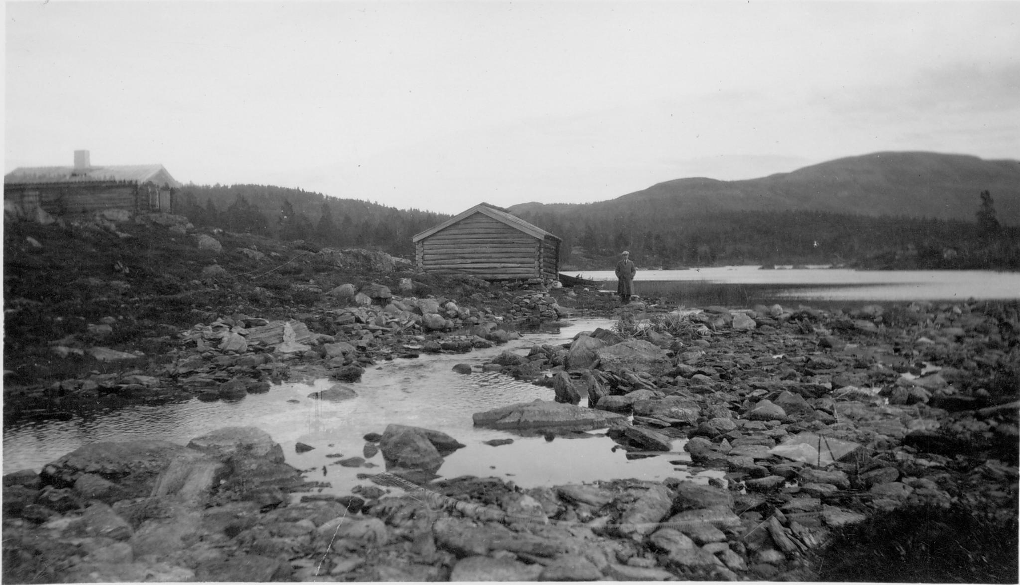 Image Note: River. Man in front of houses. Bildenotat: Elv. Mann foran hus. Date/Dato: 26.09.1930 Photographer/Fotograf: Ukjent (Unknown) Feel free to use the photos, but please make sure you attribute the photographer and mention NVE as the source. Bruk gjerne bildene, men vennligst oppgi fotografens navn og angi NVE som kilde. Format: Positive/Positiv Archive/Arkiv: Vassdragsarkivet Image ID/Bilde ID: V-arkiv_27u-18_p2